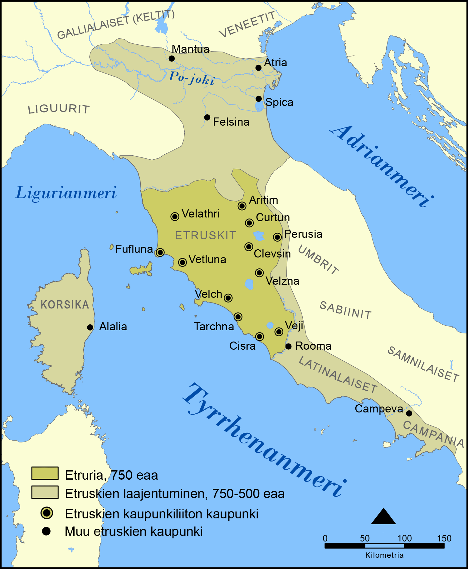 A map showing the extent of Etruria and the Etruscan civilization. The map includes the 12 cities of the Etruscan League and notable cities founded by the Etruscans. The dates on the map are an approximation based on the sources I had. If the article is updated with more accurate dates let me know and I'll modify this map to suit.